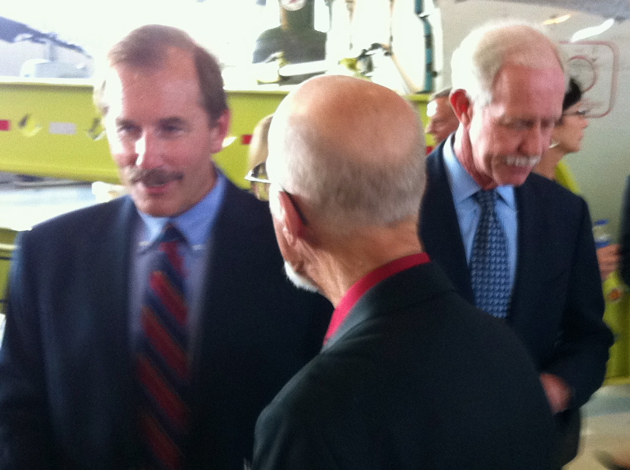 Event at the Carolinas Aviation Museum